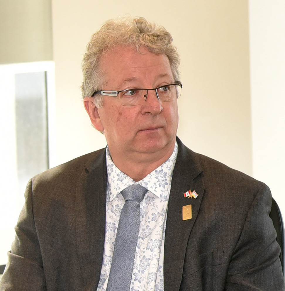 Mel Arnold at the Kelowna Chamber